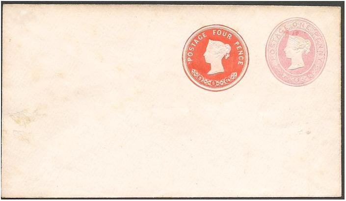 1876 Queen Victoria 1d postal stationery envelope with an additional 4 pence embossed stamp added.